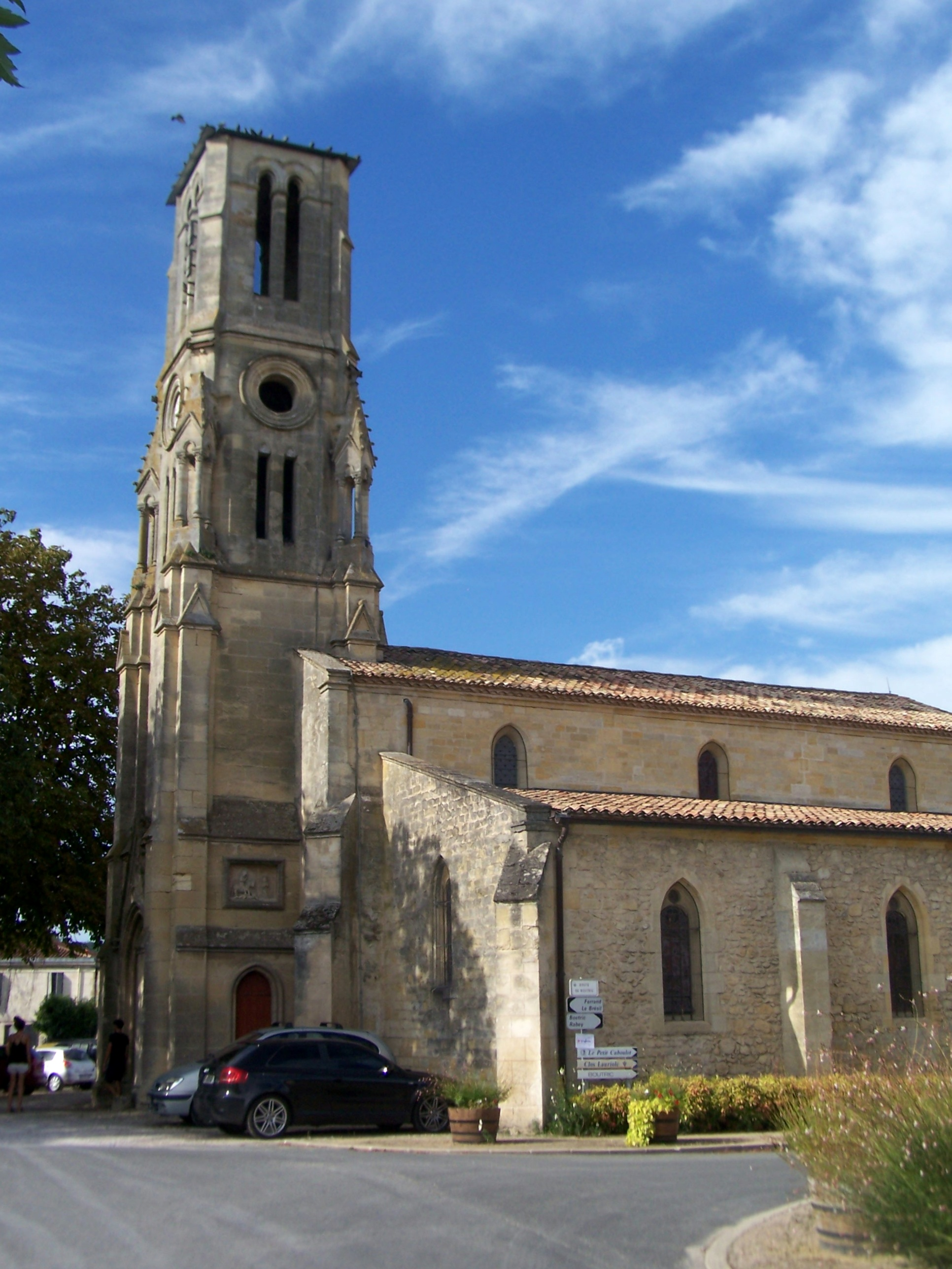 Saint George church of Isle-Saint-Georges (Gironde, France)